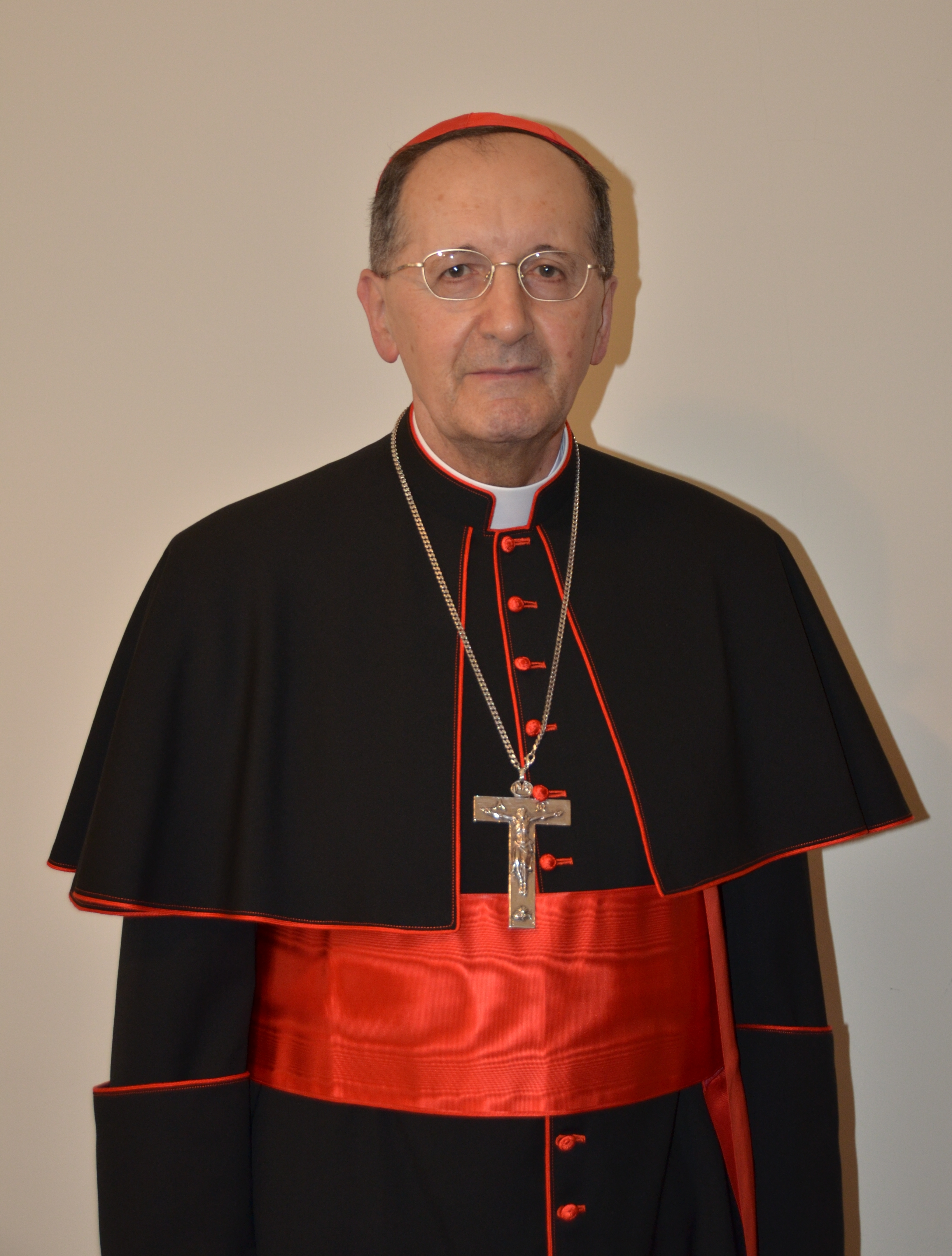 Beniamino Stella, Italian archbishop